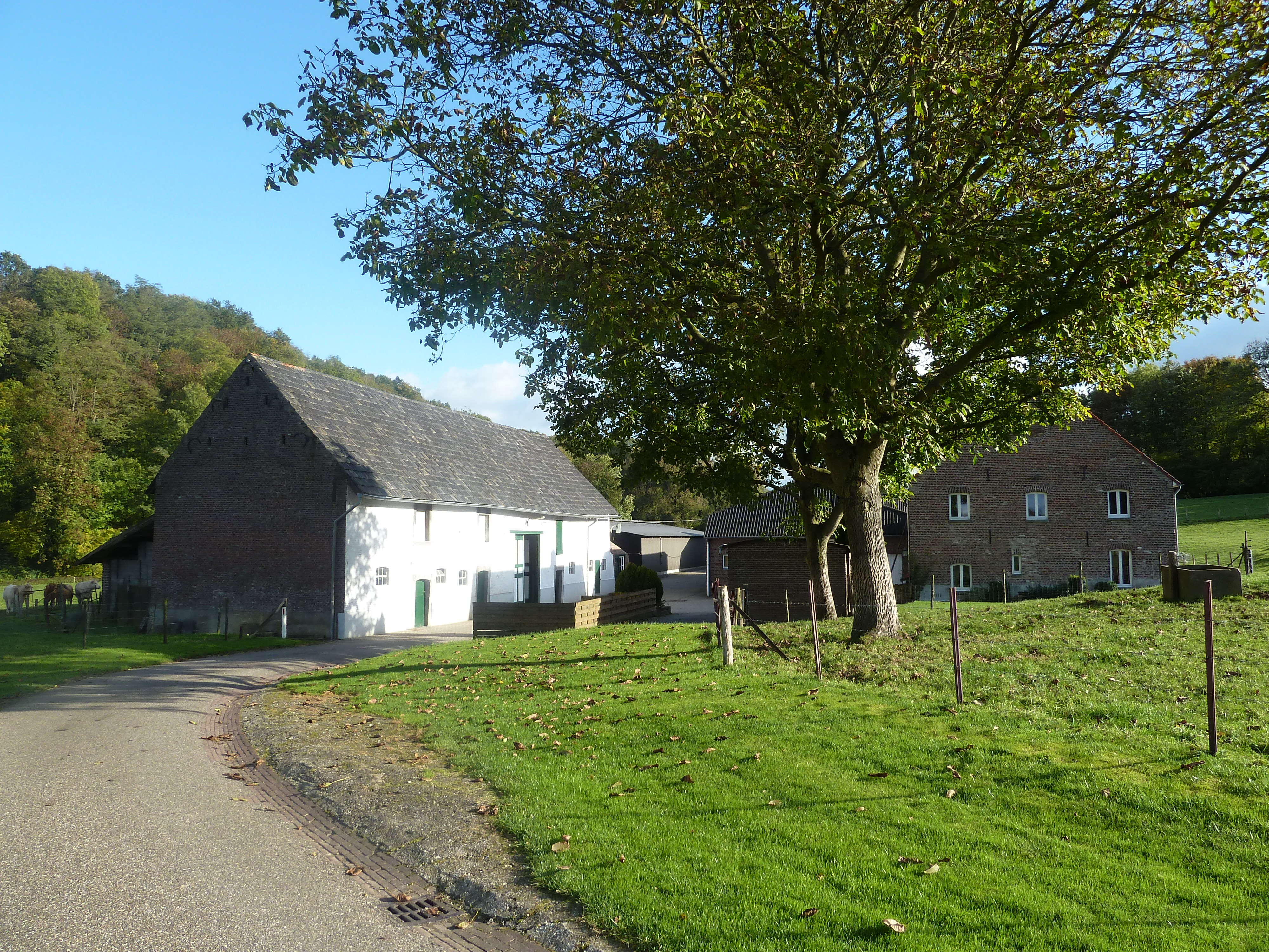 Sint Antoniusbank 10, Bemelen, Limburg, the Netherlands